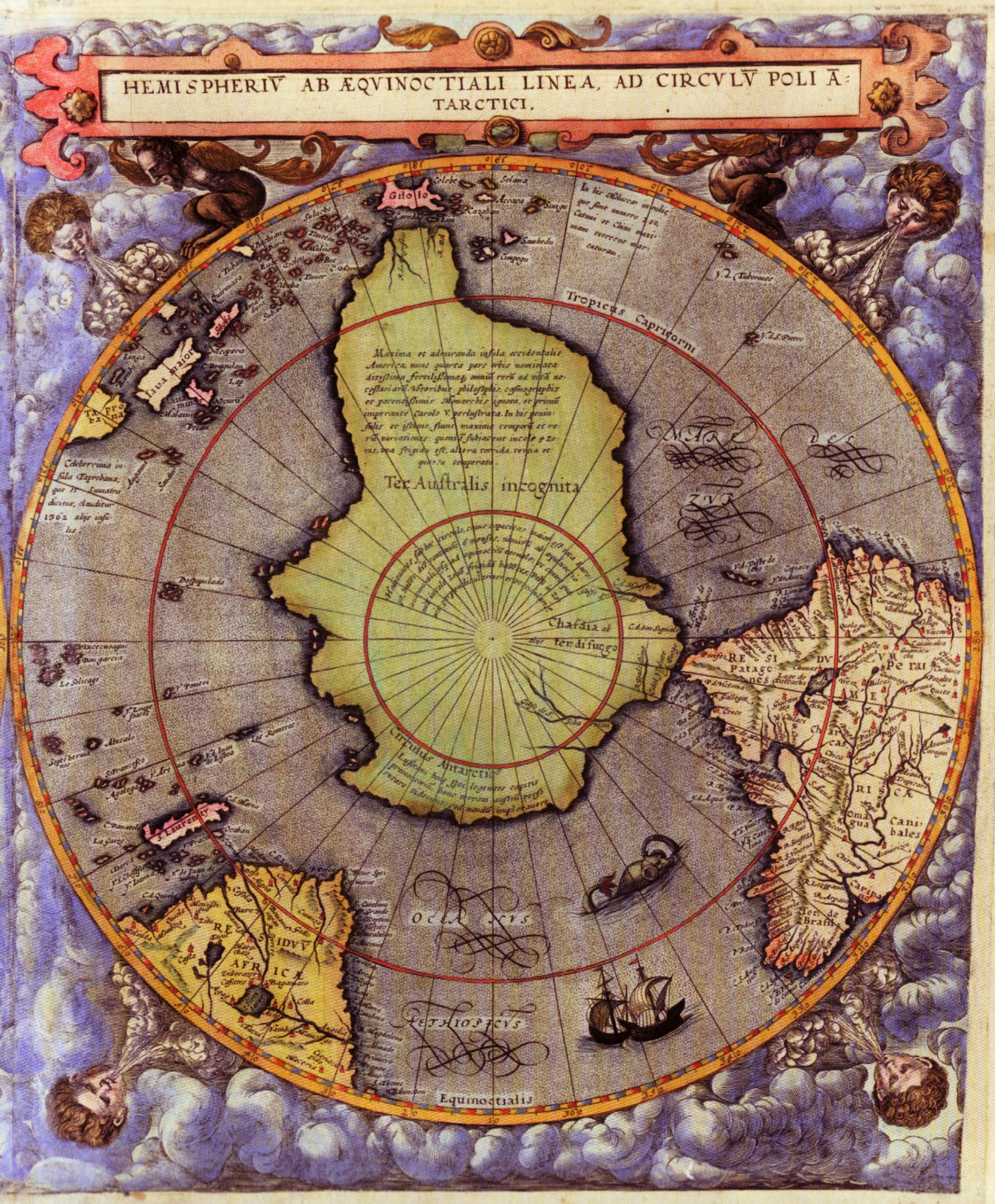 Map of the Southern hemispere, Antwerp 1593. Color print from copper engraving (printer Arnold Coninx), 33 x 52 cm